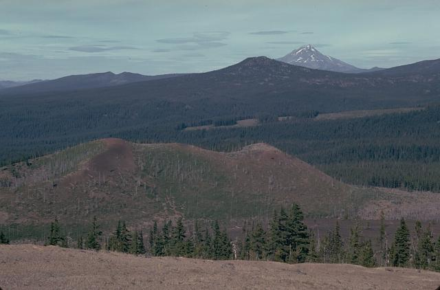 The Sand Mountain volcanic field contains a group of 23 cinder cones erupted along a N-S line NW of Mount Washington. Two cone alignments diverge at the highest cone, Sand Mountain; this view looks along the NNE alignment, with Mount Jefferson visible in the distance. The Sand Mountain cones and associated lava flows were erupted between about 3000 and 4000 years ago.